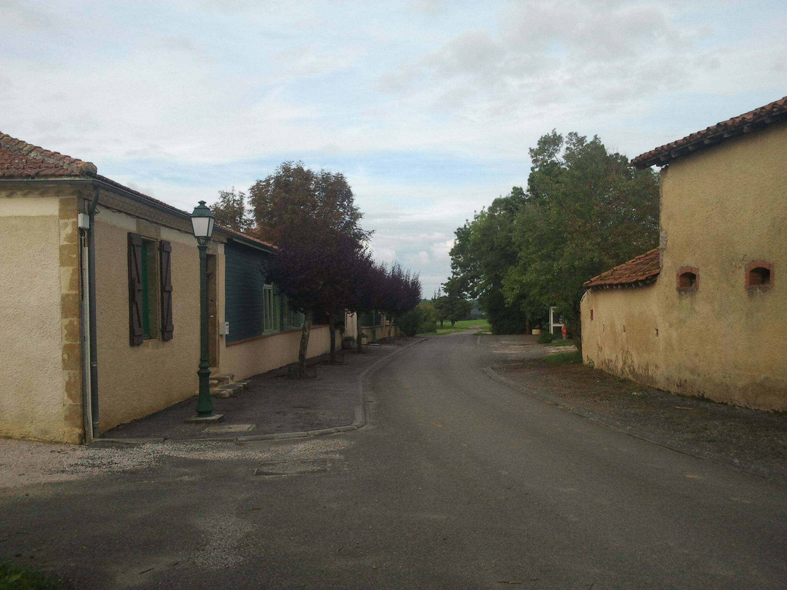 The main street in Monferran